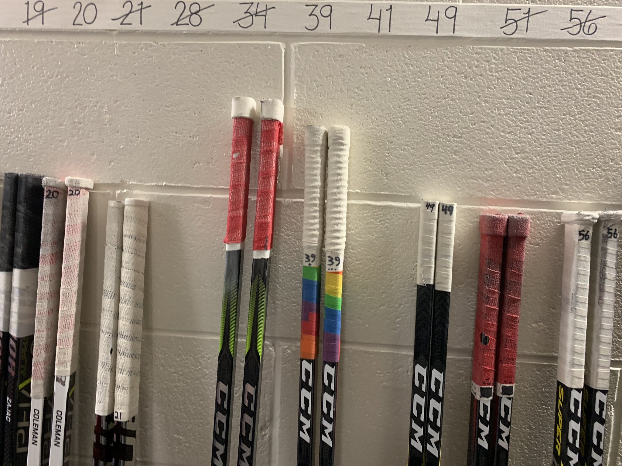 Kurtis Gabriel’s sticks after he switched to Pride tape.